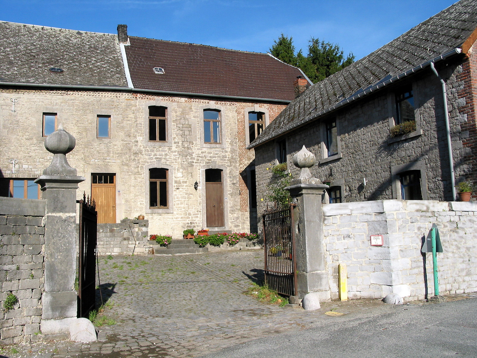 Scry (Belgium), old farm.